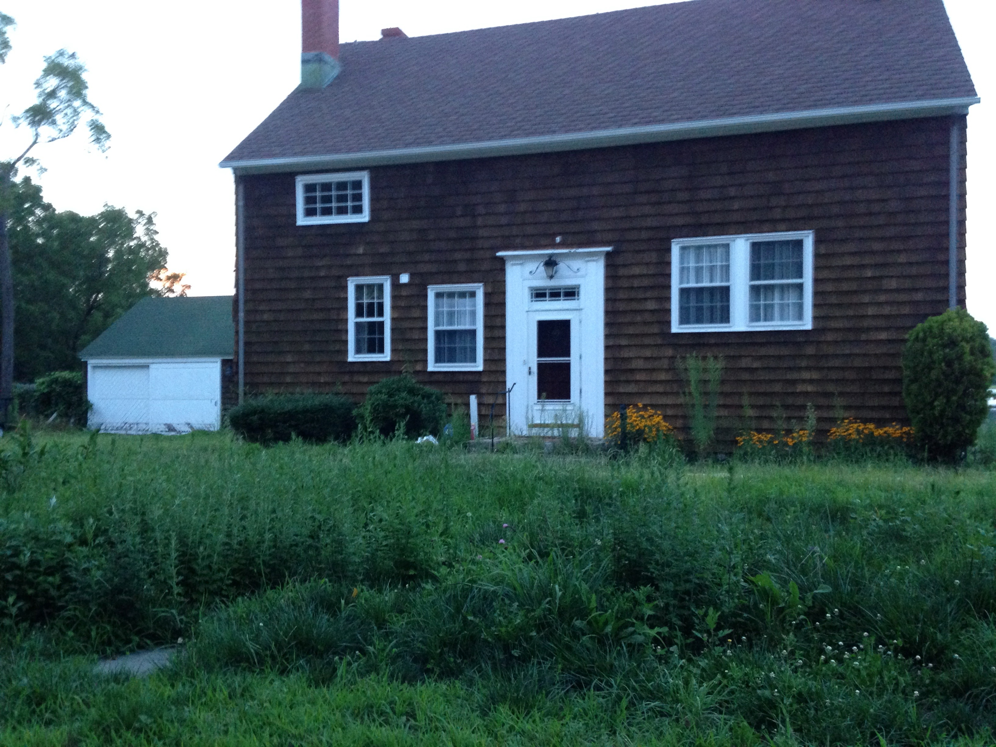 The Garet Garrett House is a Colonial Revival home built in 1941 by the financial writer, Garet Garrett, to serve as his writing studio. He owned a larger home nearby. He died in 1954. Dr. Alison Price, who collaborated with William Rorer Inc. to produce Maalox, lived at the house with his wife Linda (Bricker) and four children, Franklin, Lowell, Alice and Robert from 1958 until his death in June of 1981.